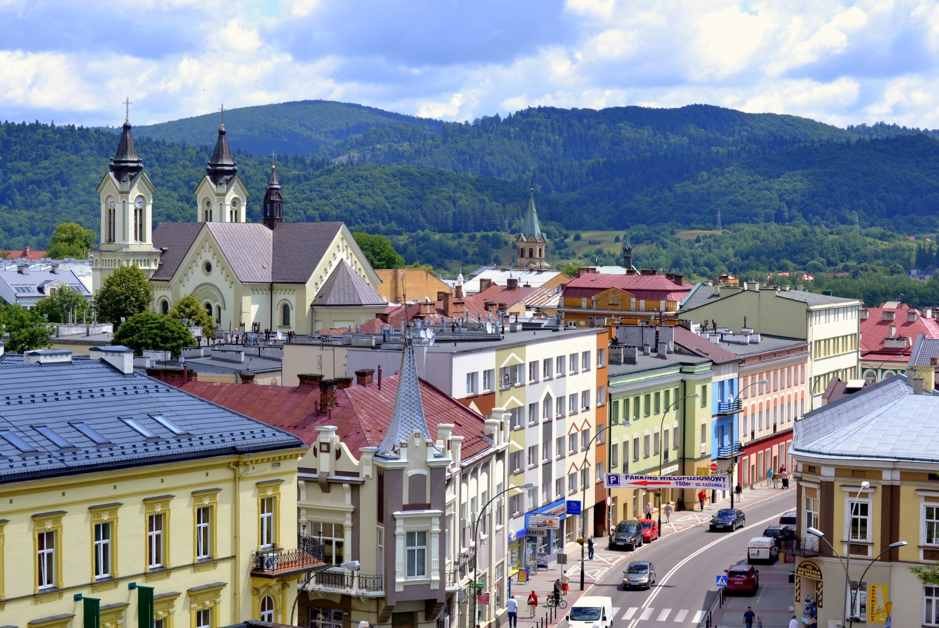 Sanok, von Kosciuszkistrasse aus gesehen